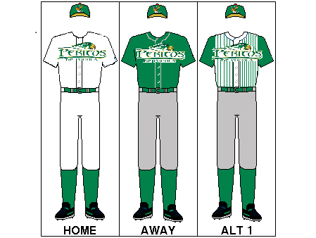 Baseball kit for Pericles de Puebla team from 2010